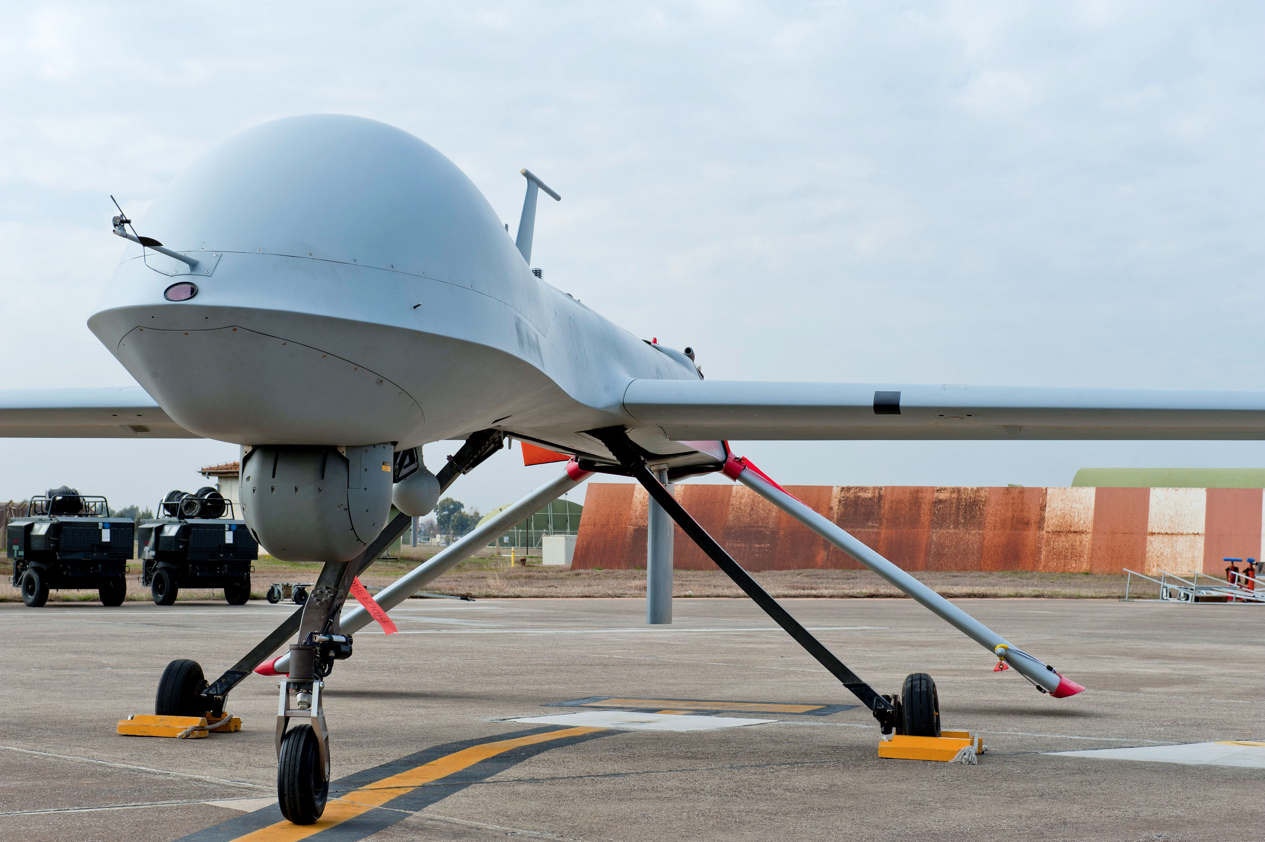 An MQ-1B Predator from the 414th Expeditionary Reconnaissance Squadron sits on the flightline Feb. 14, 2012, at Incirlik Air Base, Turkey. Reactivated Nov. 23, 2011, the 414th ERS dates back to World War II when it was known as the 414th Bombardment Squadron. (U.S. Air Force photo by Senior Airman Anthony Sanchelli/Released)